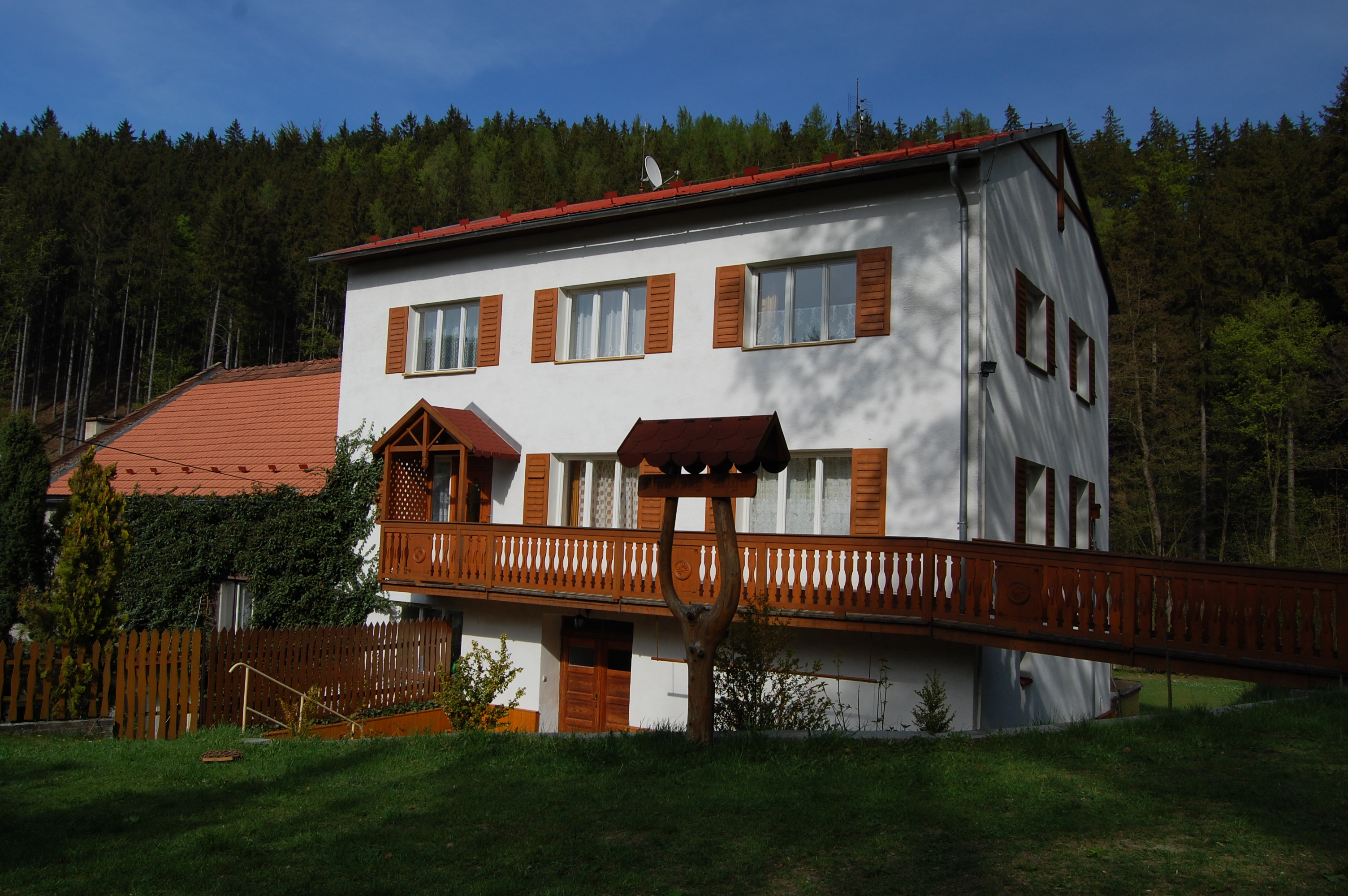 Mill in Lipová, Prostějov district, Czech Republic